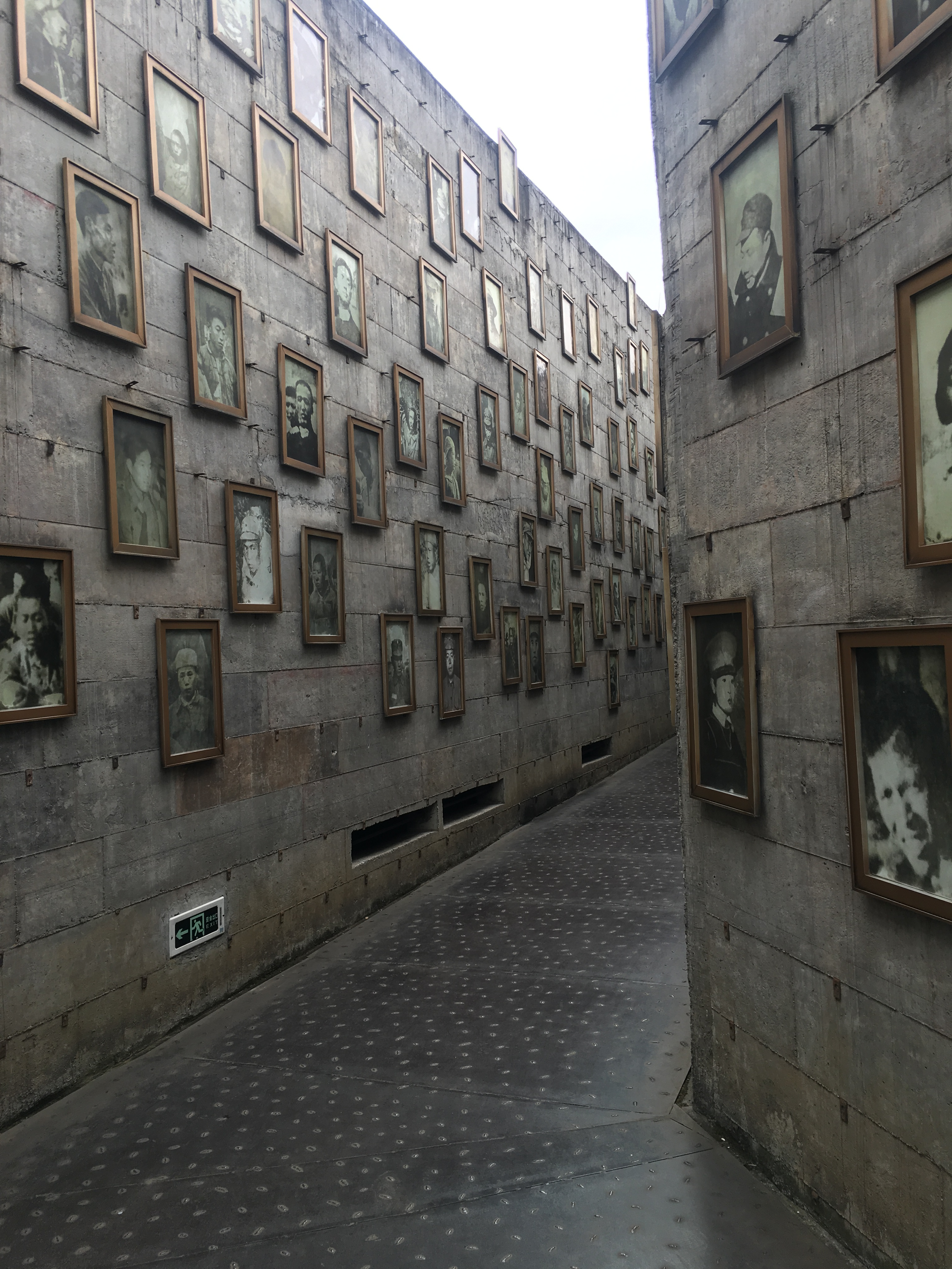 Jianchuan museum-prisoners of war